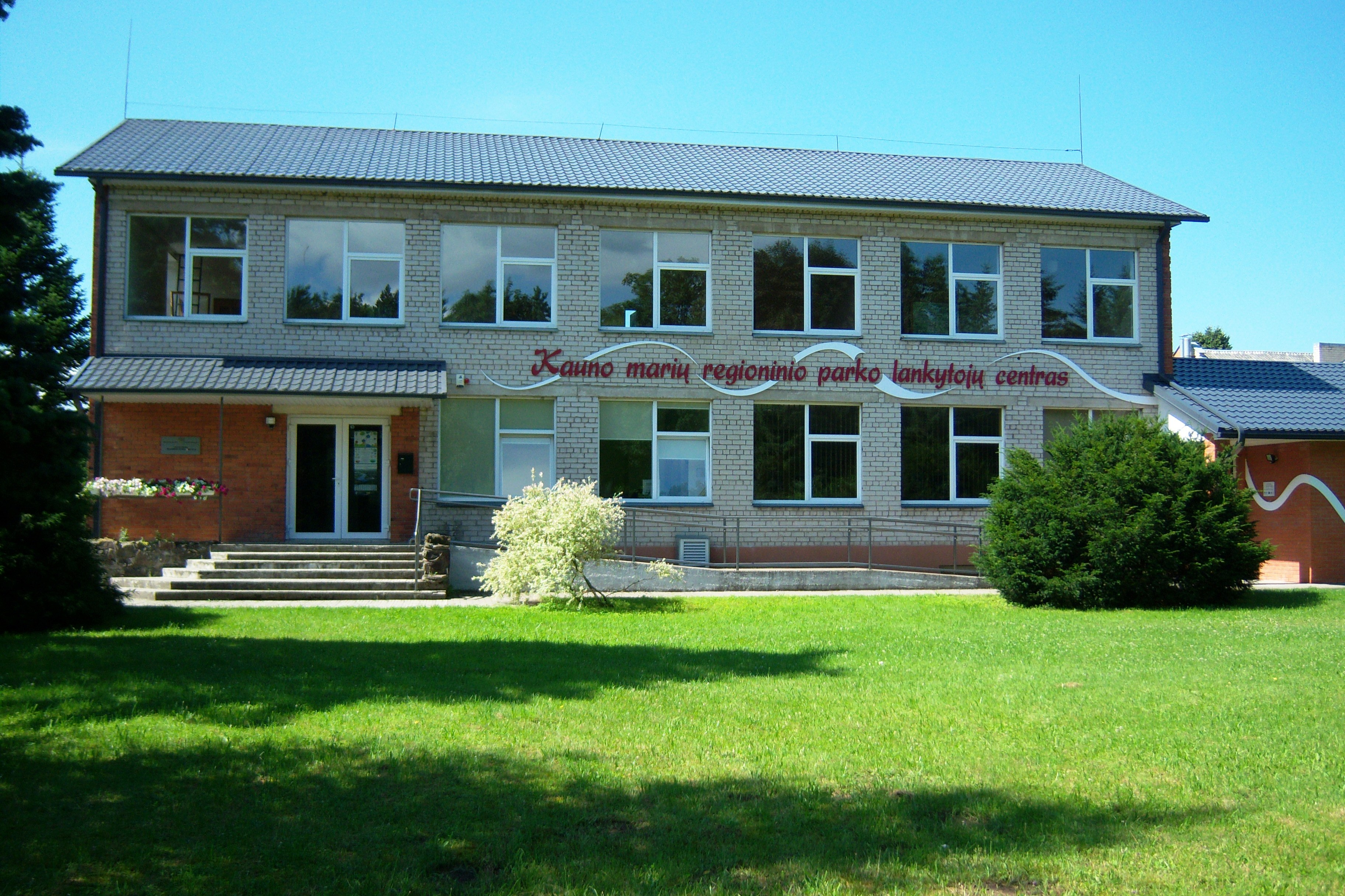 Kaunas Reservoir Regional Park administration (visitors' centre) in Vaišvydava, Kaunas district, Lithuania